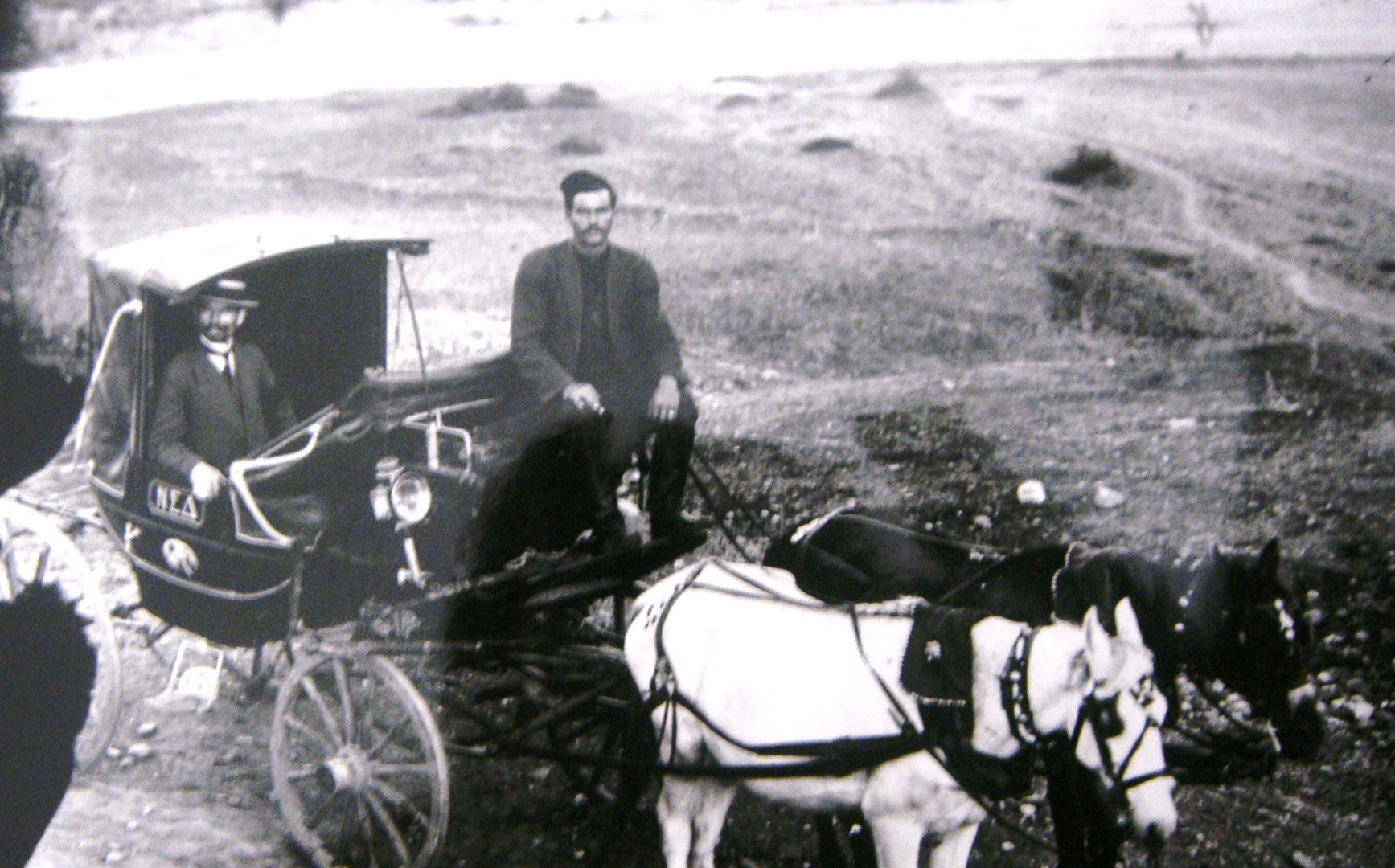 Milton Manaki on a carriage, photographed on the road between Grevena and Sorovikj. 1913 (damaged glass plot) This media file is produced by Wikipedian in Residence in Category:Wikipedian in Residence at DARM in 2016.